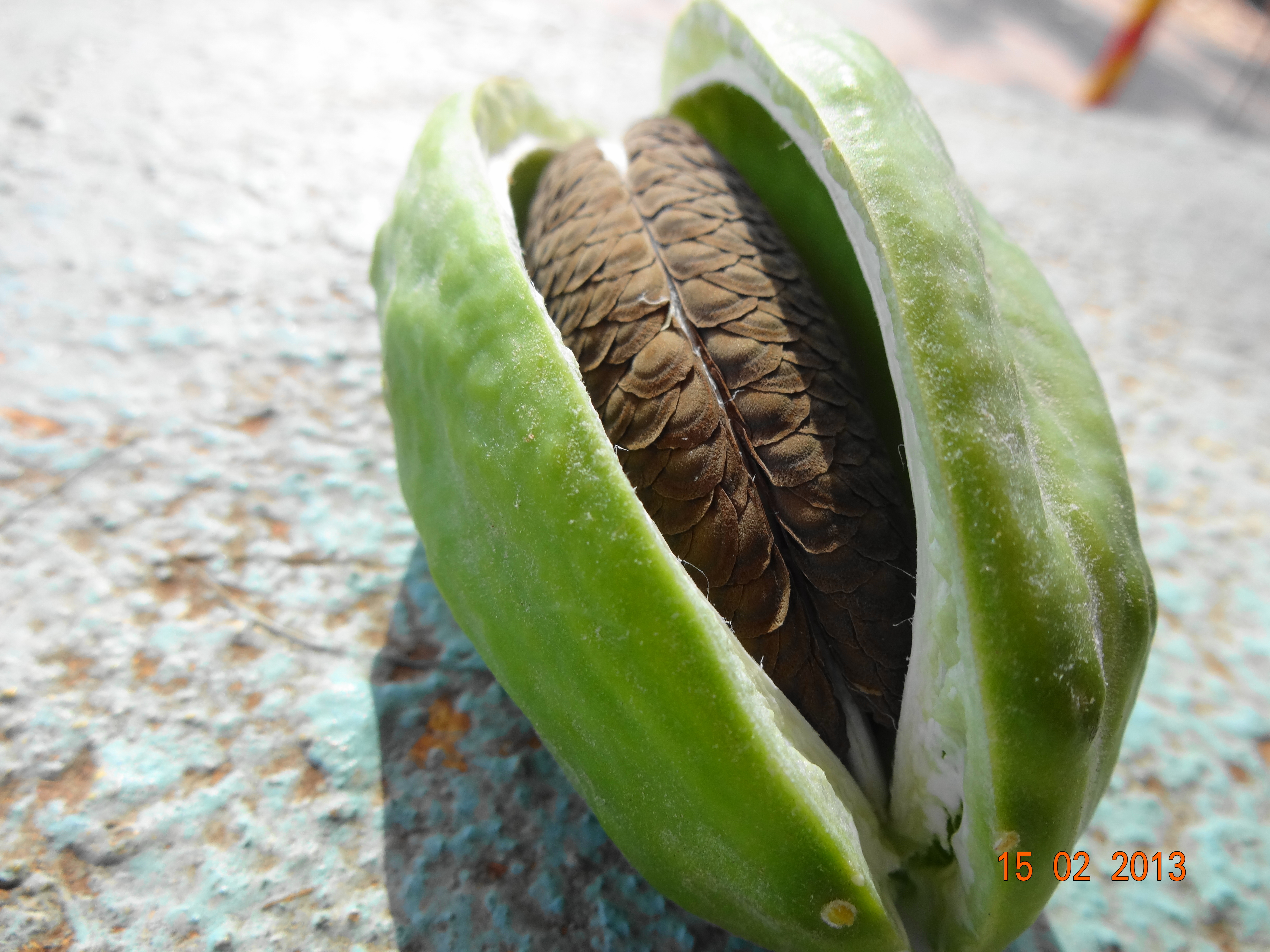 Calotropis Gigantea half opened fruit